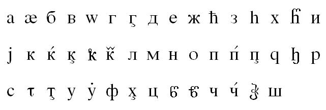 Cyrillic-based Lezgi alphabet (1911)